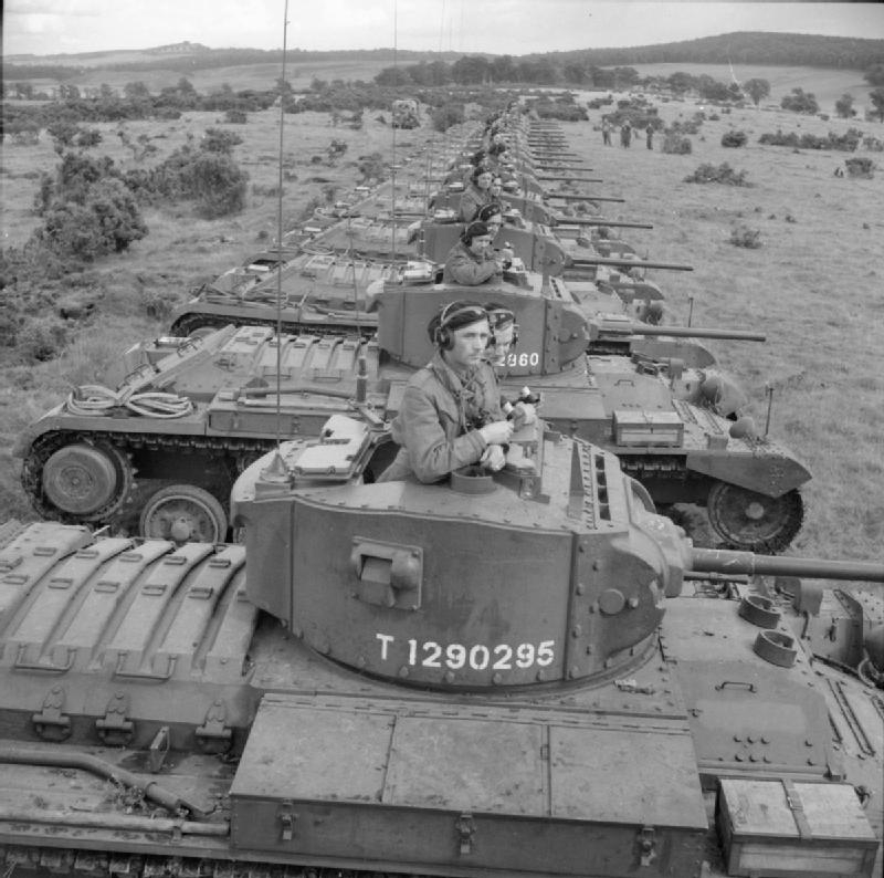 Valentine Mark III tanks of the 16th Tank Brigade (1st Polish Corps) lined up during an exercise in Scotland. Photograph taken during General Alan Brooke's visit to the Scottish Command. A number of a tank in the foreground is T1290295.